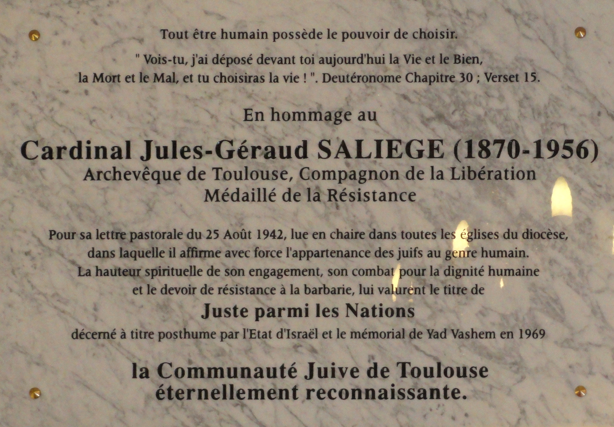 Synagogue Palaprat-Toulouse - France- Memorial plaque for archbishop Saliège